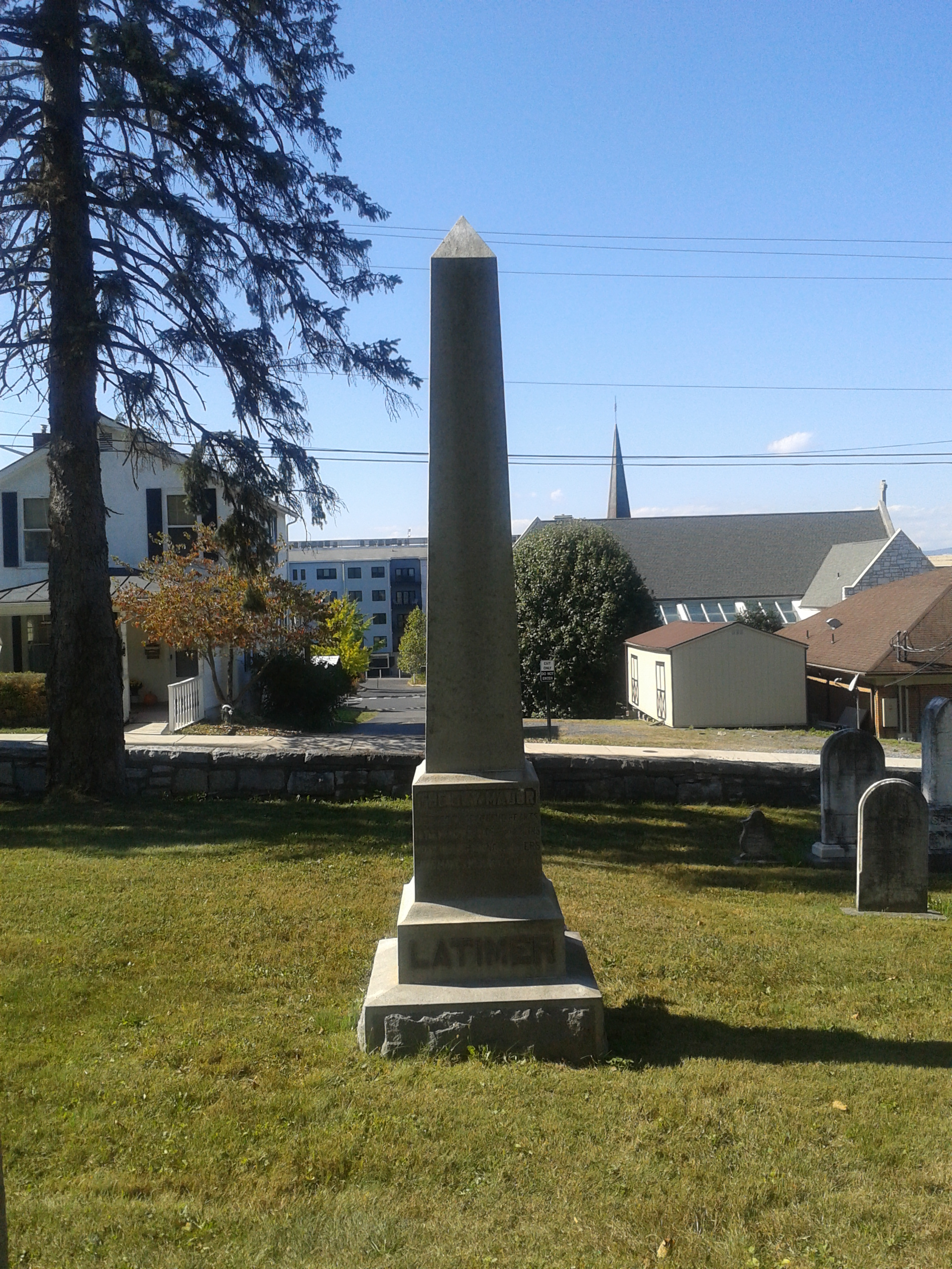 Woodbine Cemetery, Harrisonburg, Virginia